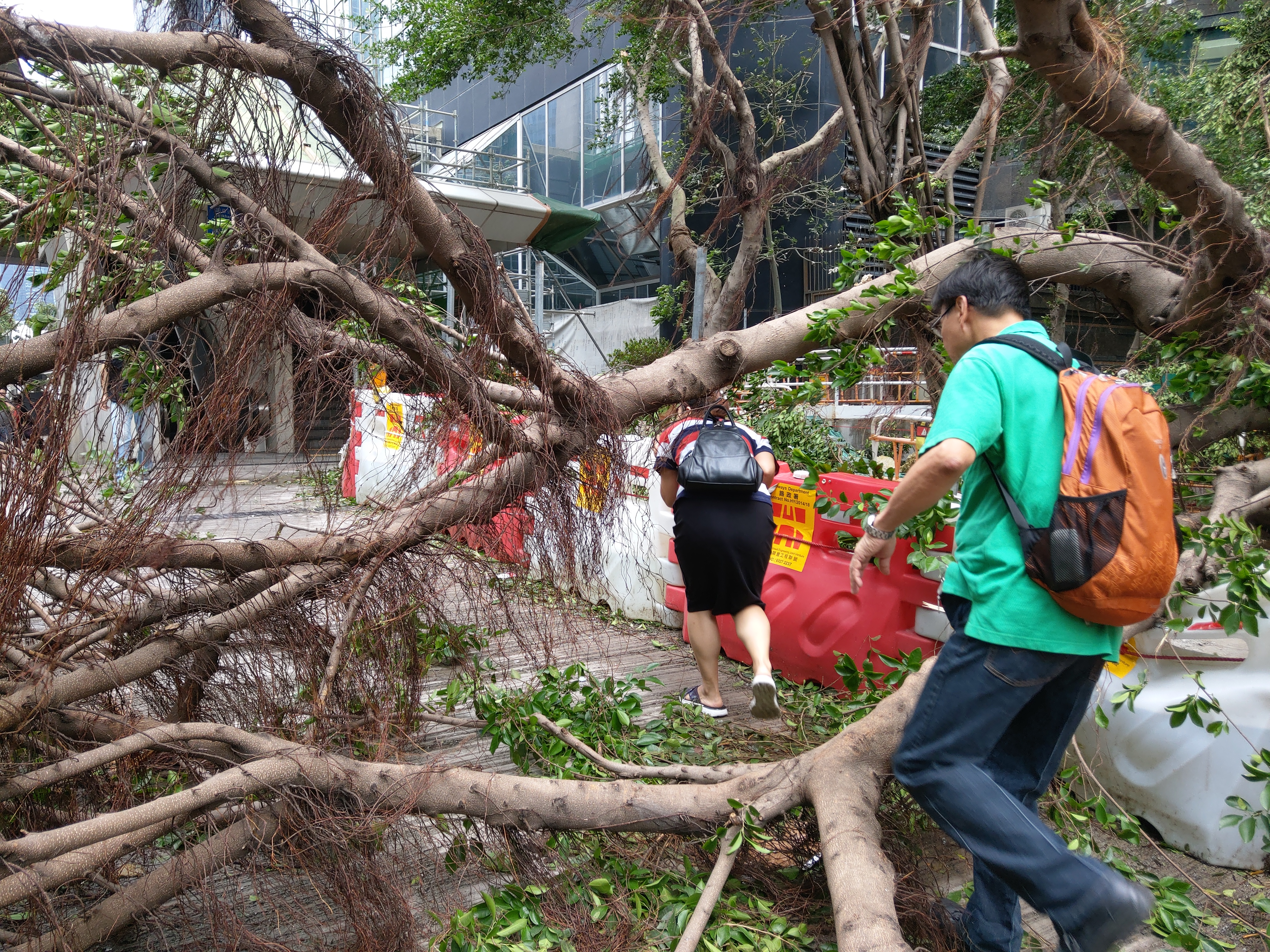 The morning after Typhoon Mangkhut in 2018, people are climbing over fallen trees near Immigration Tower in Wan Chai, Hong Kong.